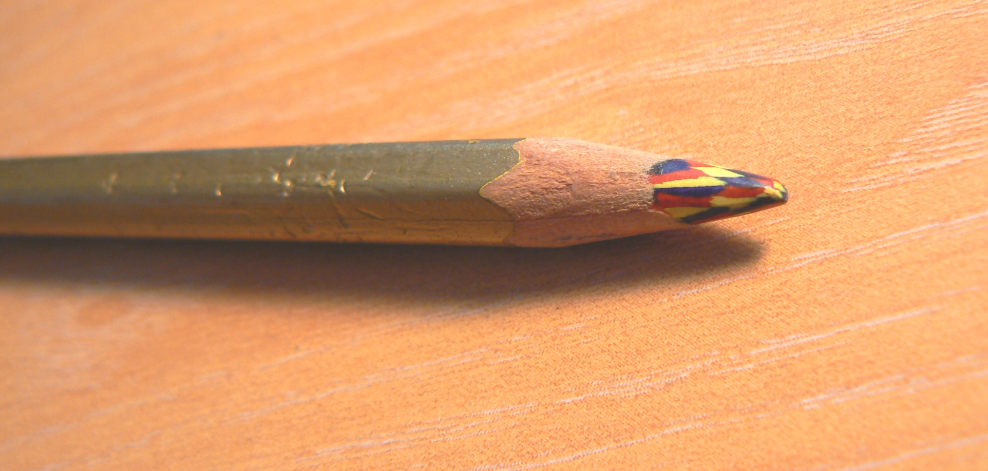 Multicolor pencil in yellow, red and blue (Koh-i-noor Hardtmuth Aristochrom 3400, made in Czech Republic)